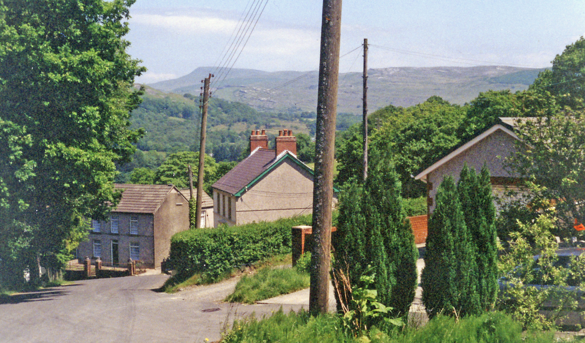 Road down to former station at Abercrave. View northward, with Carmarthen Van (2,632 ft.) in the distance. The station had been on the ex-Neath & Brecon and Midland Joint line from Colbren Junction (right) to Ystradgynlais (left), which closed entirely on 30/11/64 (to passengers long before on 12/9/32). (See also SN8212 : Eastern boundary of Abercrave).